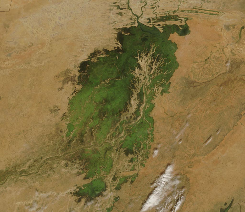 The MODIS on the Terra satellite took this picture of the Inland Niger Delta on November 11, 2007 shortly after the end of the rainy season when the landscape remained lush and green. This inland delta is a complex combination of river channels, lakes, swamps, and occasional areas of higher elevation. One such area of higher elevation is obvious in this image, and it forms a branching shape, like a tan tree pushing up toward the north. This wet oasis in the African Sahel provides habitat both for migrating birds and West African manatees. The fertile floodplains also provide much needed resources for the local people, who use the area for fishing, grazing livestock, and cultivating rice.